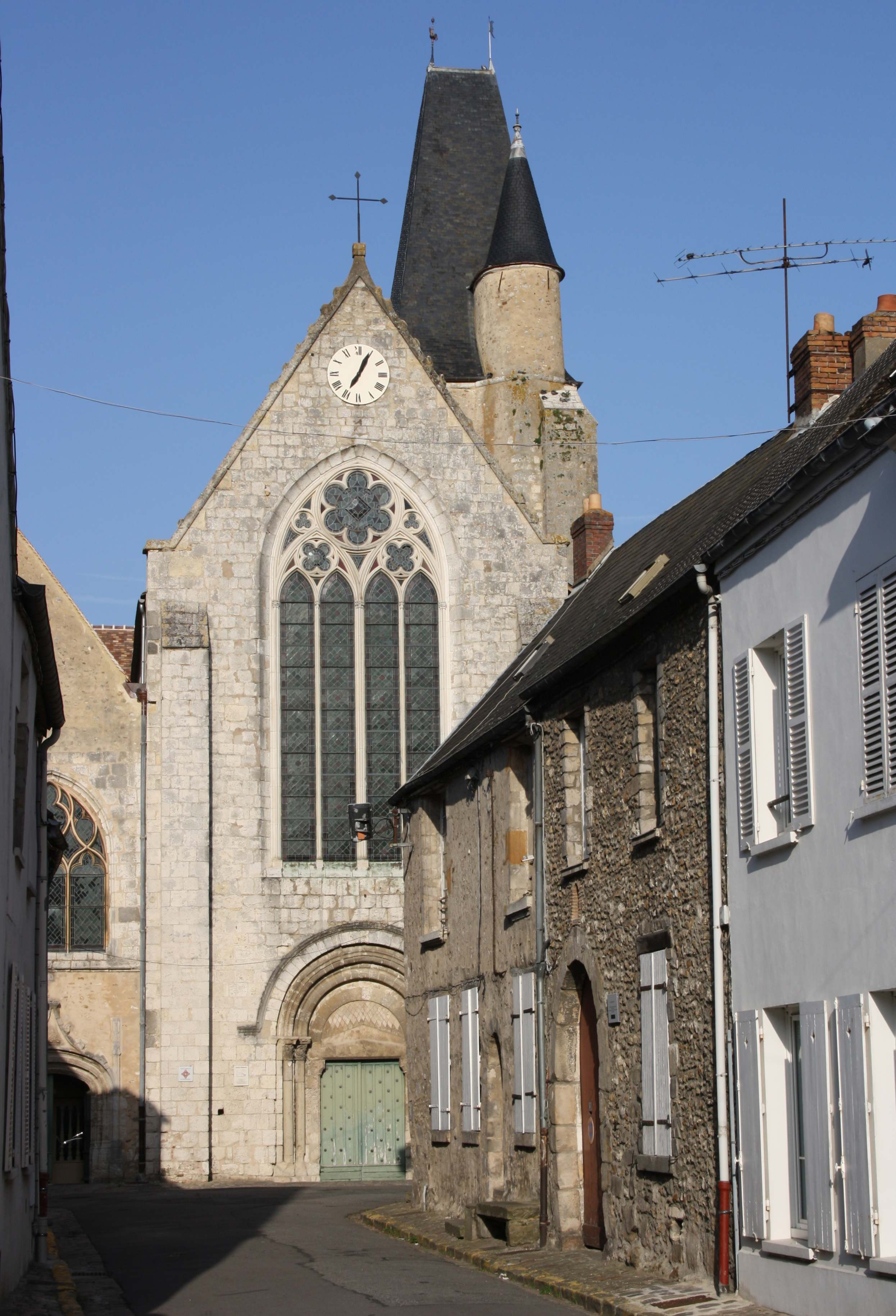 Saint-Nicolas church of Saint-Arnoult-en-Yvelines, France